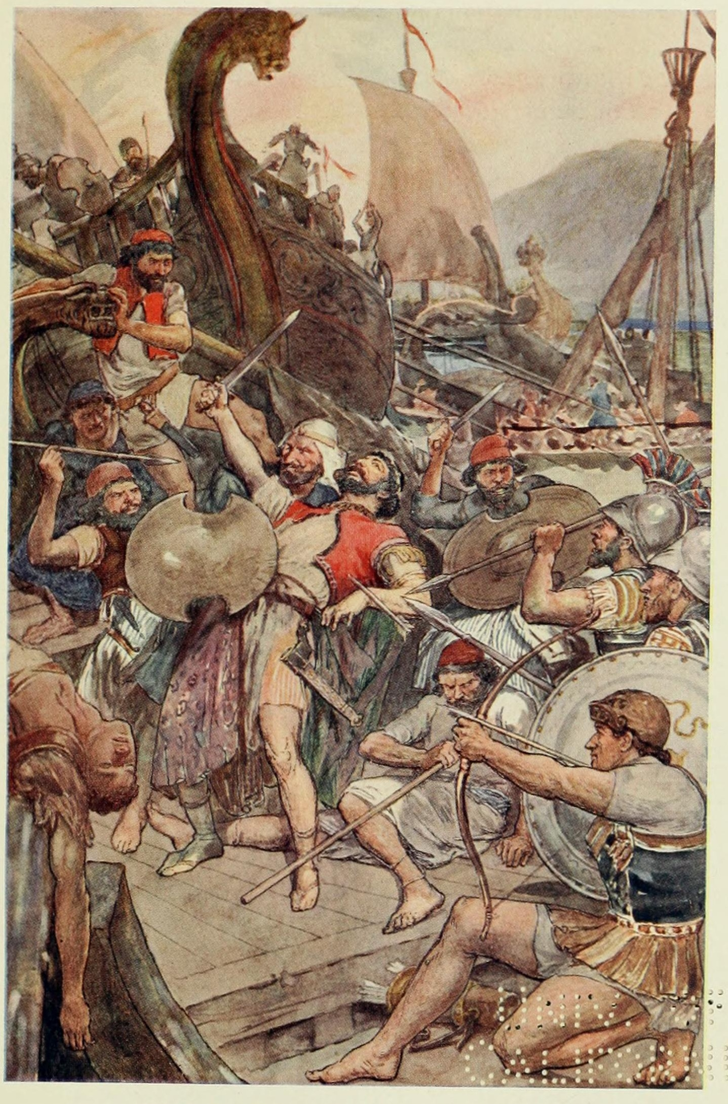 Battle of Salamis, fought between an alliance of Greek city-states and the Persian Empire in September 480 BC; The death of the Persian admiral Ariabignes (a brother of Xerxes) early in the battle.